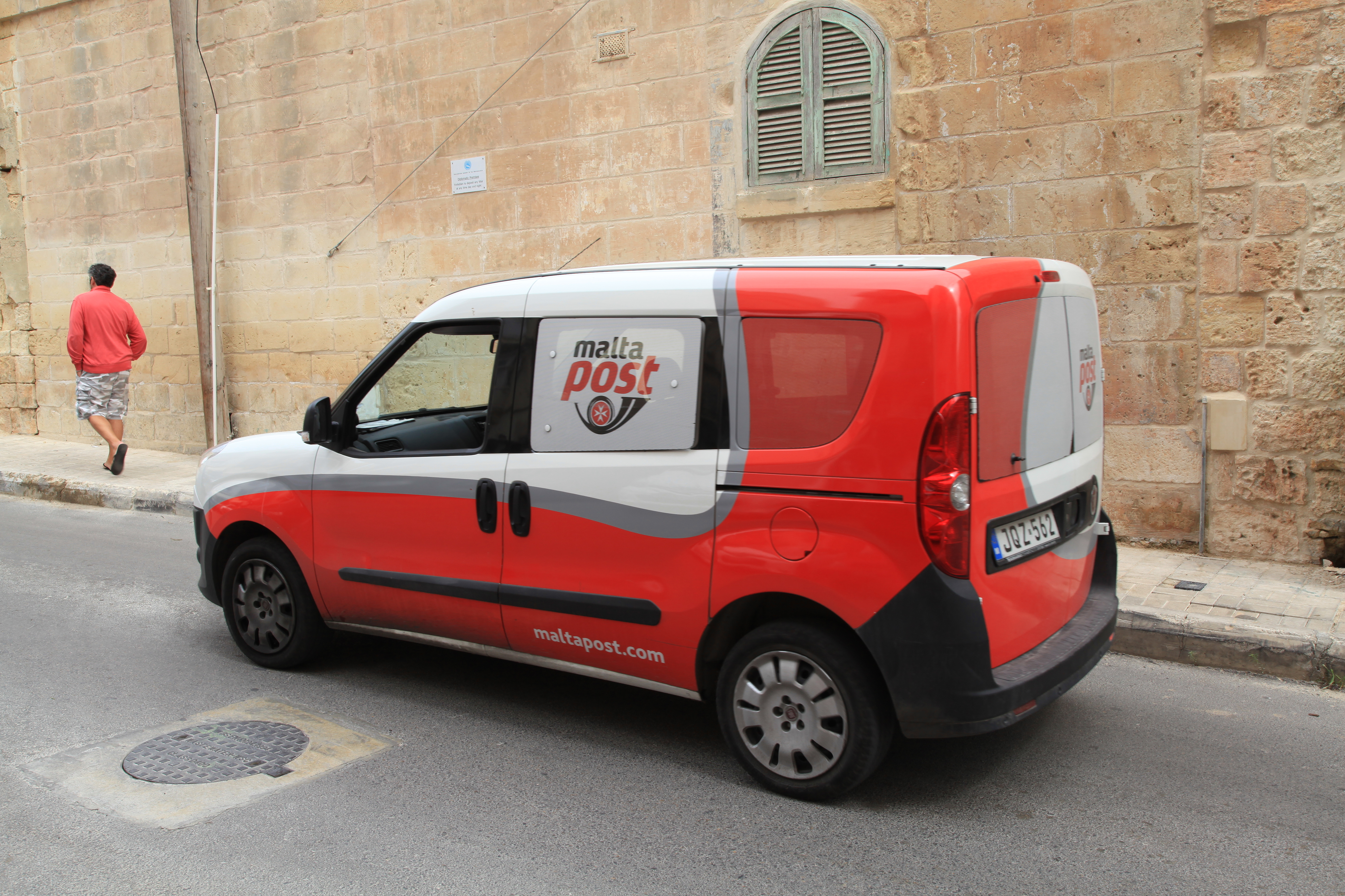 Triq Spinola in St. Julian's, Malta